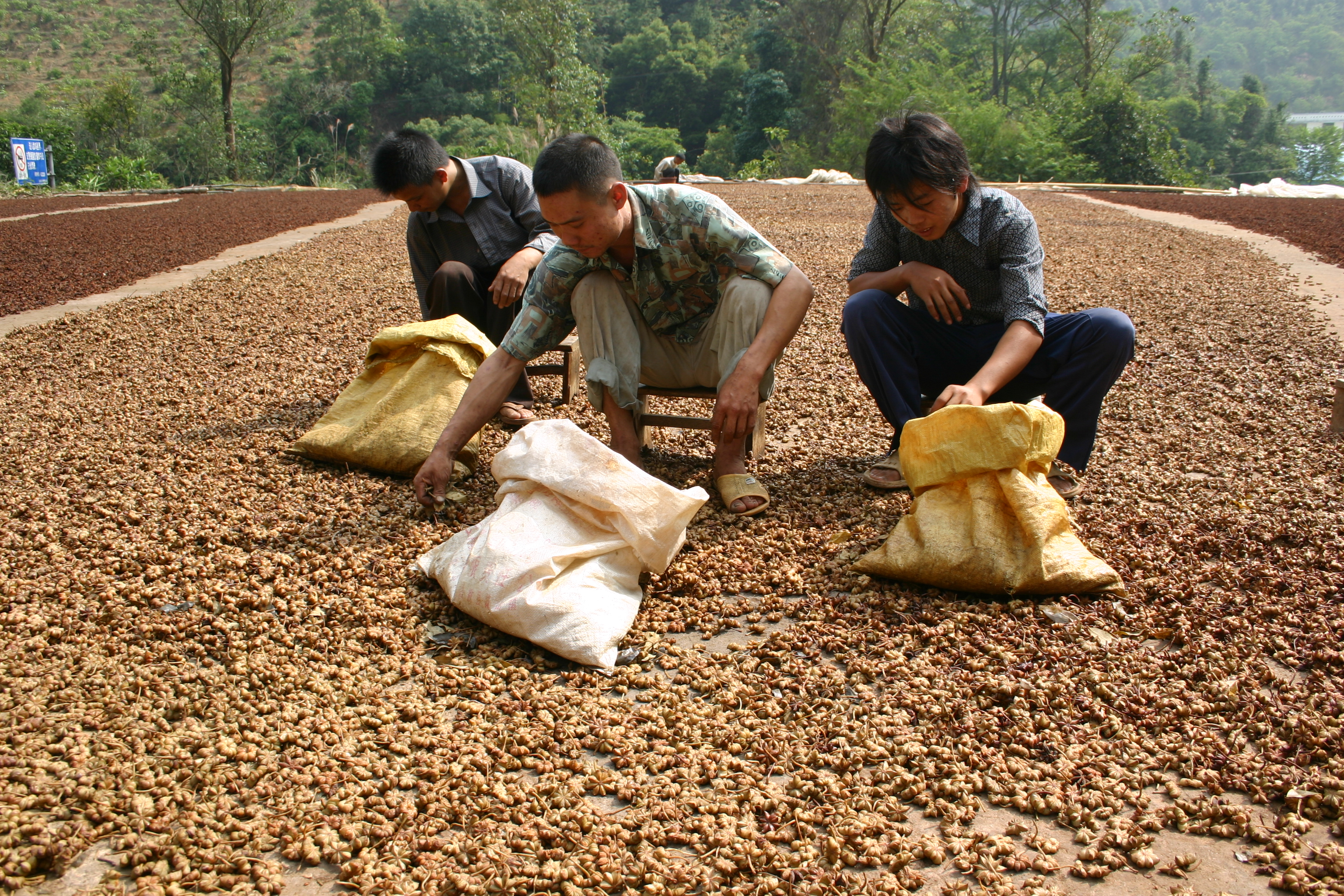 guangxi - star anise farm in china 2005